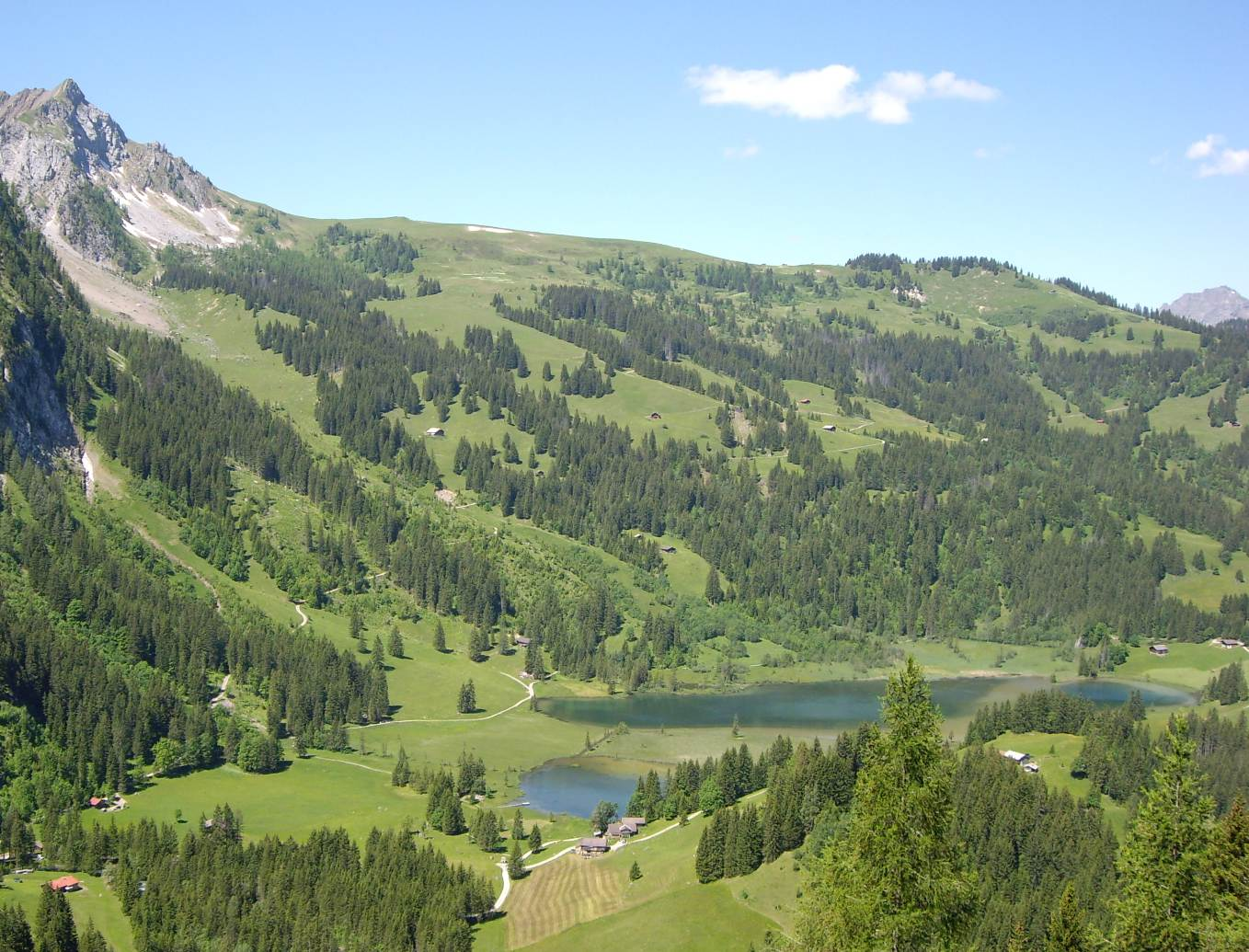 View of the Lauenensee.